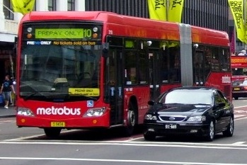 A metrobus outside Sydney Town Hall.